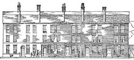 Joys buildings, Congress St., Boston, in 1808 (conjectural illustration drawn by Lawrence Park, 1910)